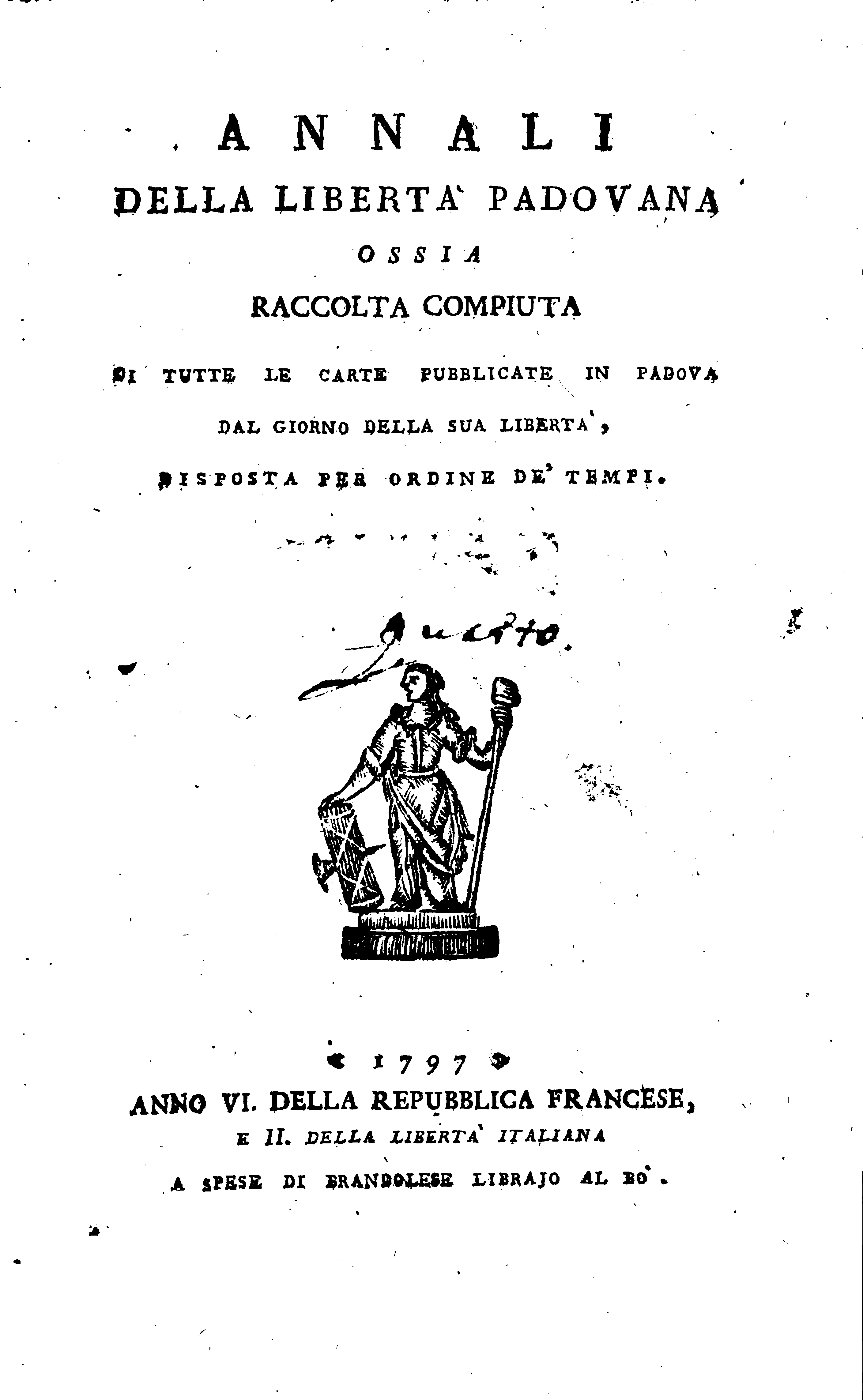 Cover of a Eighteenth century book entitles Annali della libertà padovana